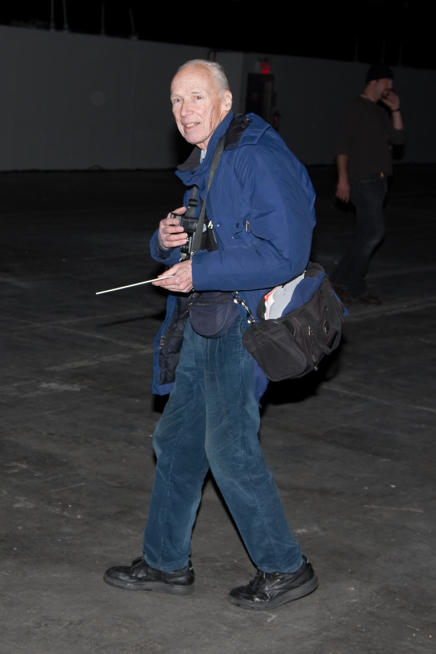 Fashion photographer Bill Cunningham